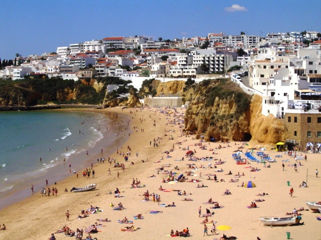 Looking west across Praia dos Pescadores within the city of Albufeira, Algarve, Portugal.